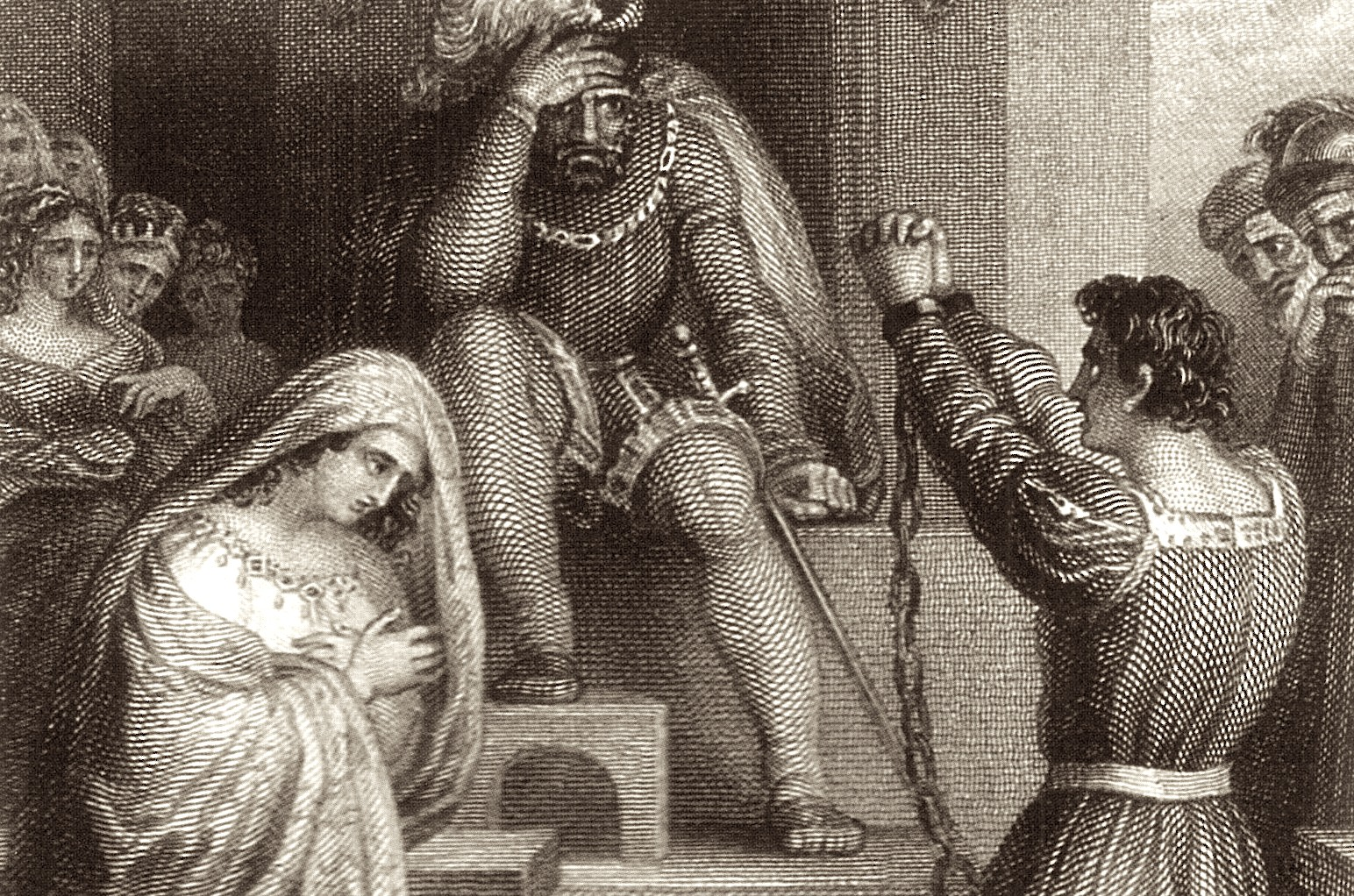 Parisina: Parisina and Ugo summoned before Azzo. From Act II, Scene VIII to the opera